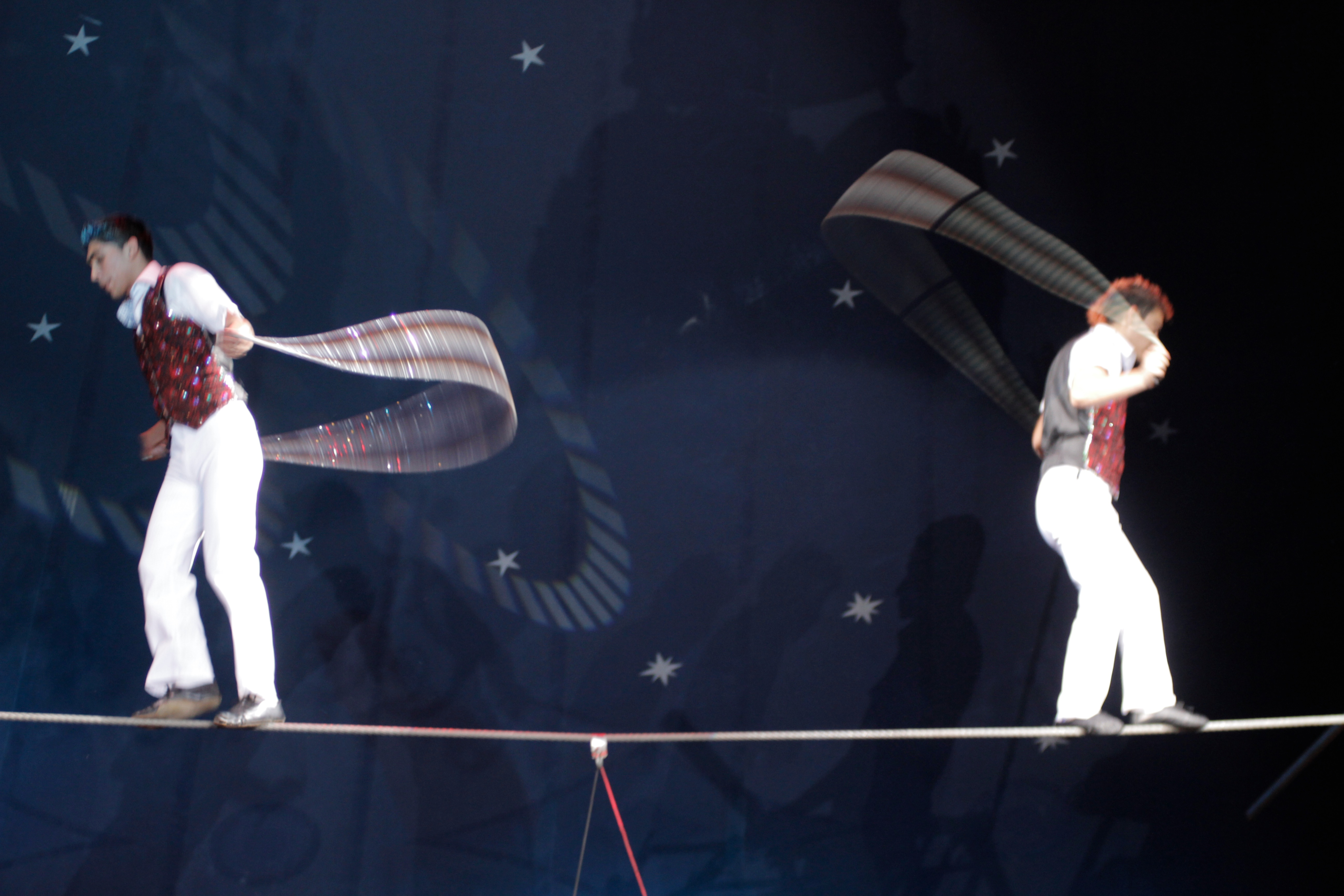 Full story: القصة l'histoire